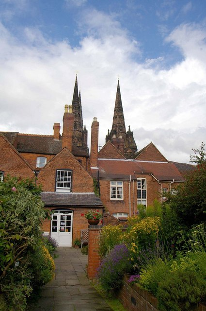 Erasmus Darwin House herb garden in Lichfield, Staffordshire, England.